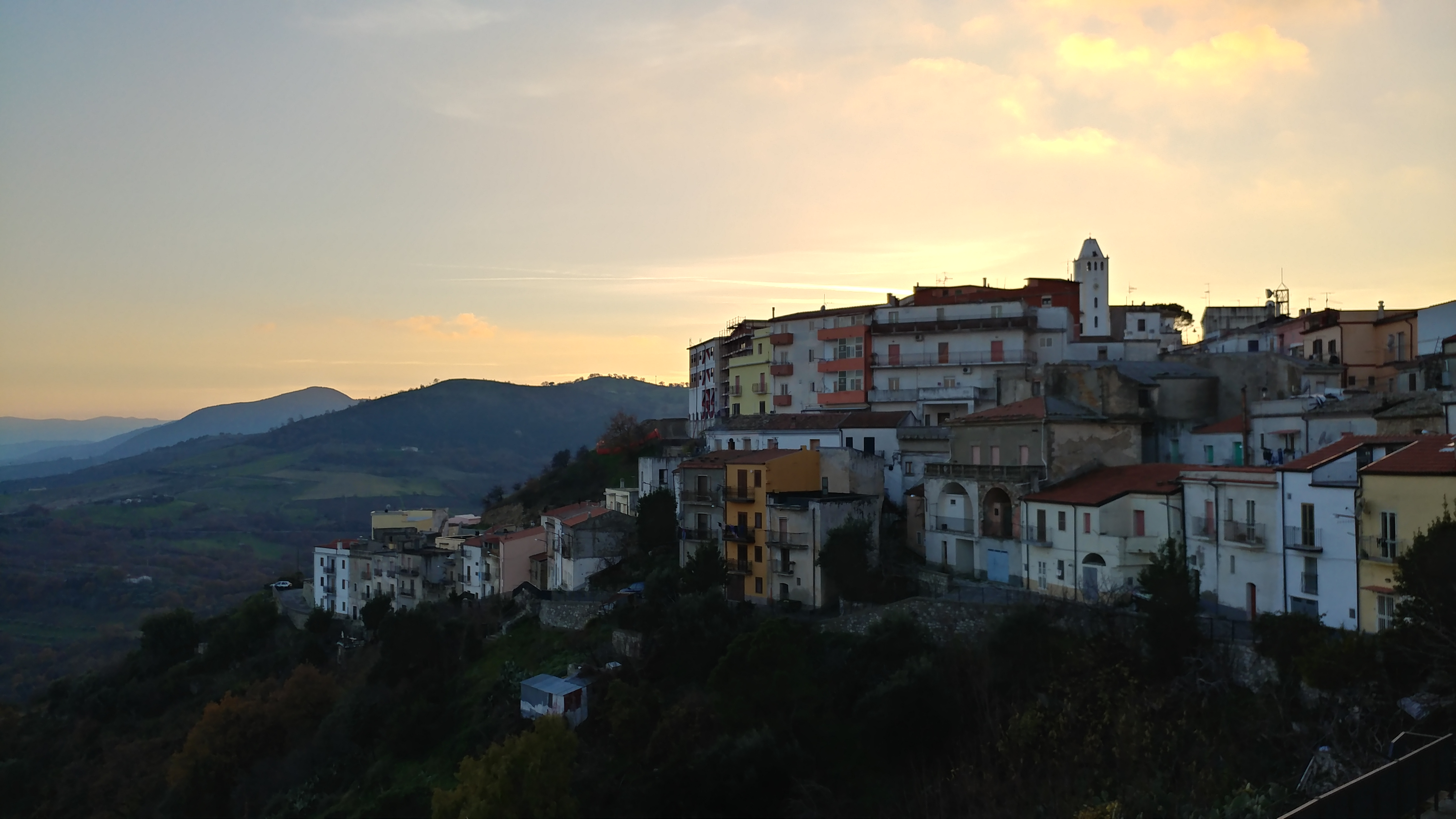 View of Rotondella from the South. Taken with LG V20 at 4:15 pm.